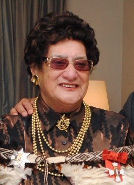 June Mariu, after her investiture as DNZM, for services to Māori and the community, on 29 August 2012